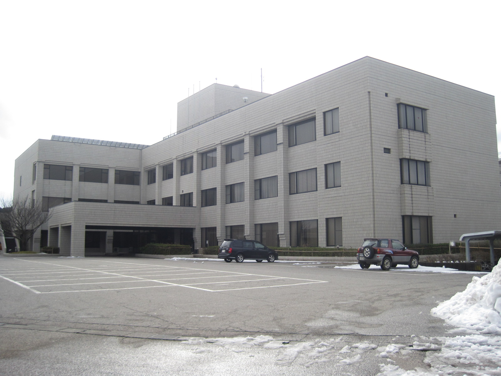 Hodatsushimizu Town Office (Hodatsusimizu town, Ishikawa prefecture)